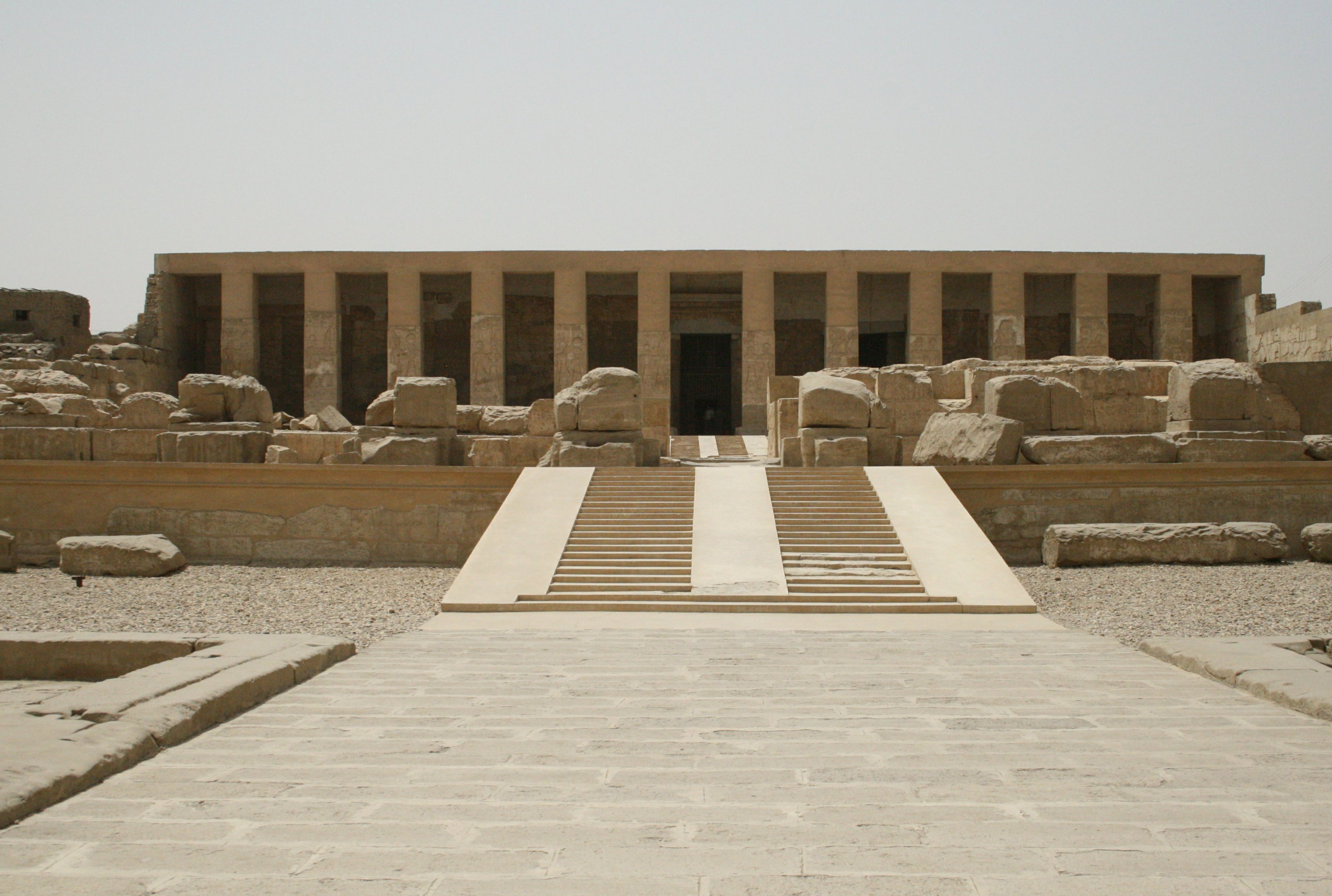 Temple of Seti I - Abydos